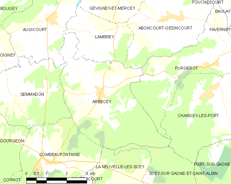 Map of French municipality